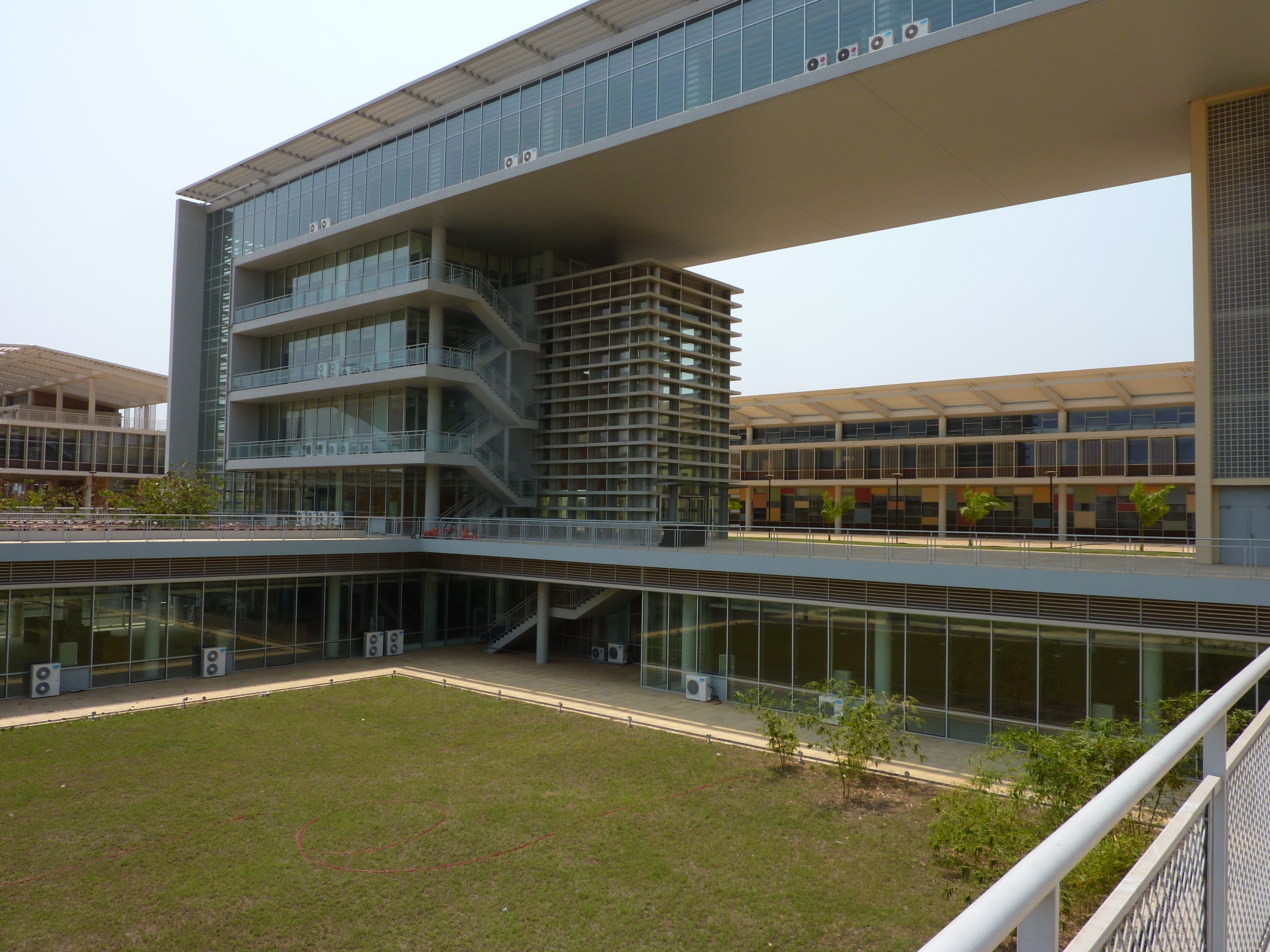 New campus